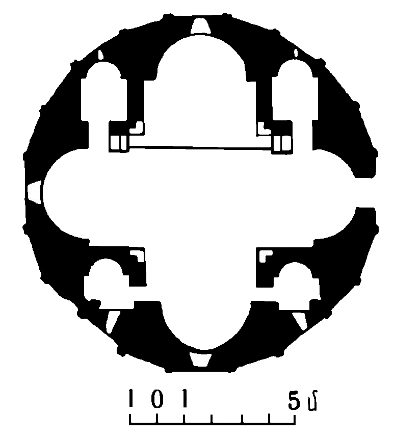 Plan of S. Sargis church in Xchkonq